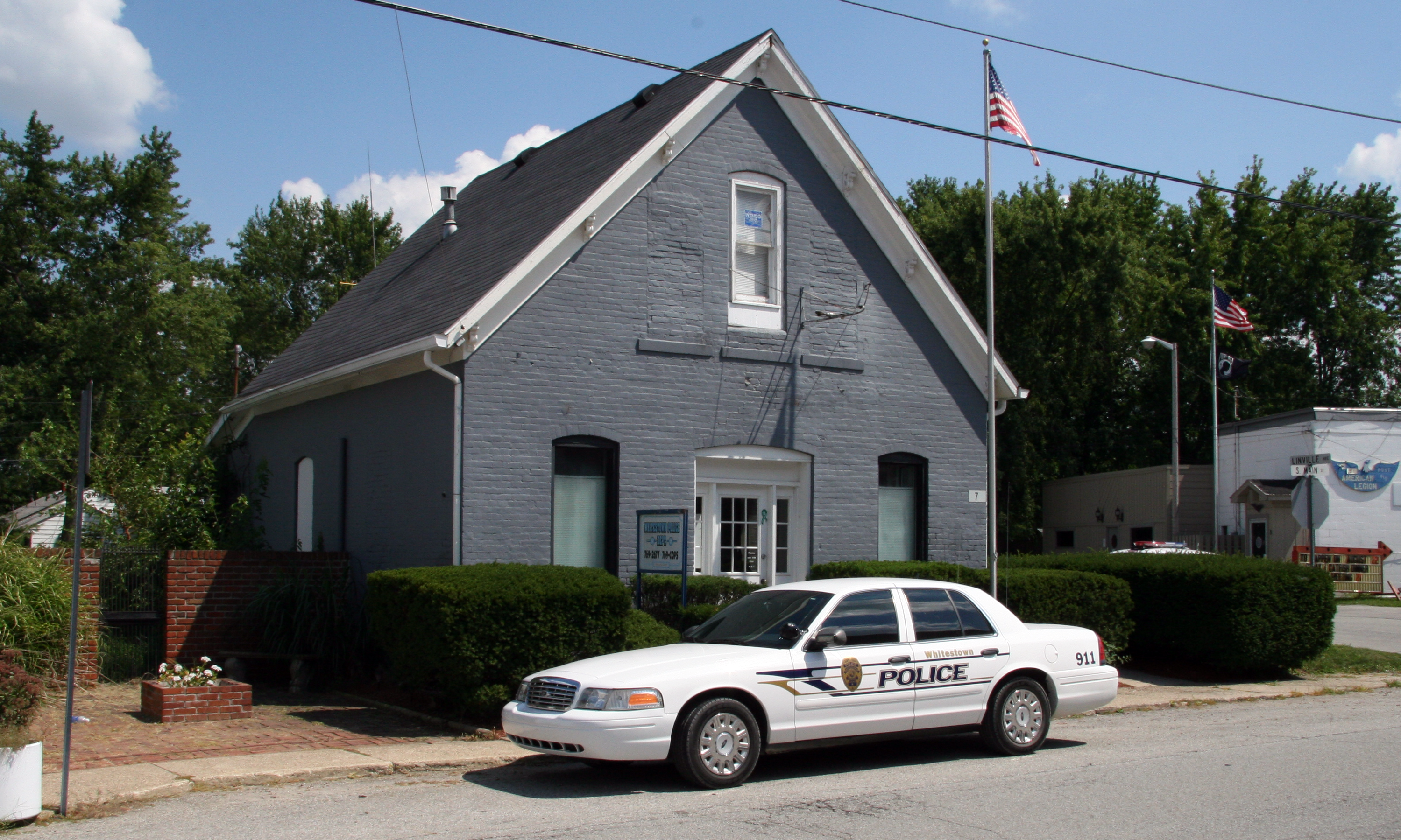 The police headquarters in the town of Whitestown, Indiana.